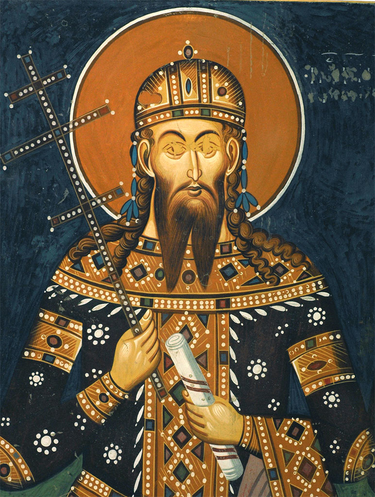 Stefan Uroš V of Serbia